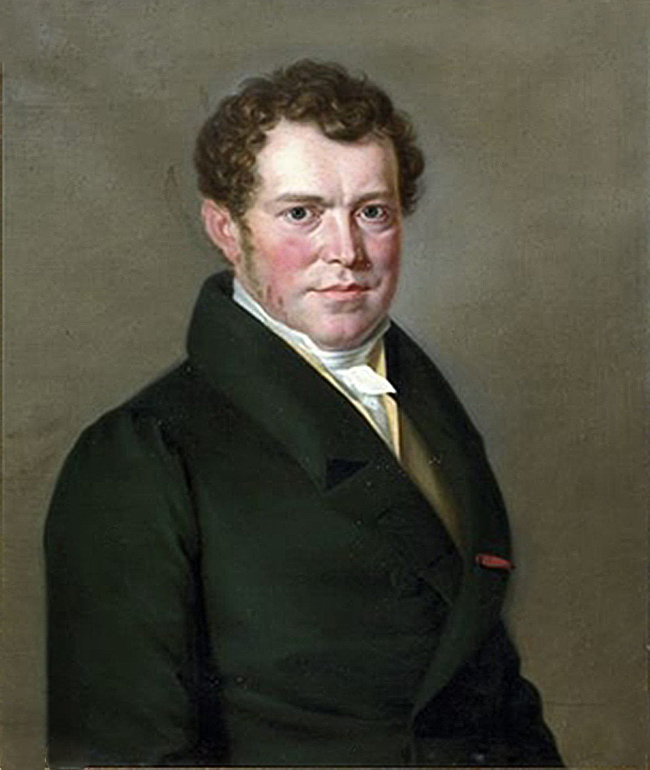 Johann Christoph von Herdegen. Oil painting